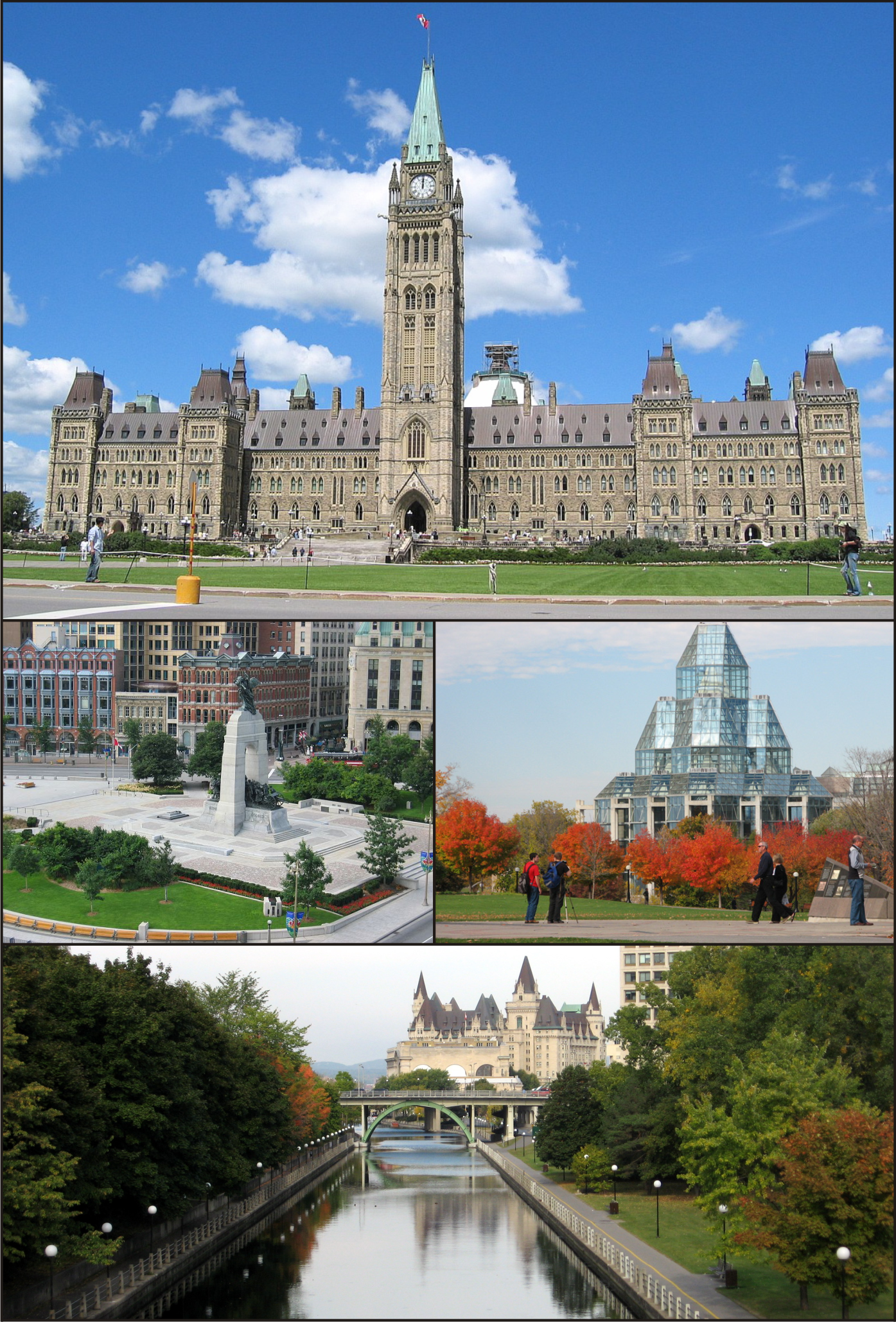 Confederation Square, with National War Memorial in its centre, in Ottawa, Canada. The view towards downtown from the Corktown Pedestrian Bridge in Ottawa, Canada. The Laurier bridge and Château Laurier are visible.